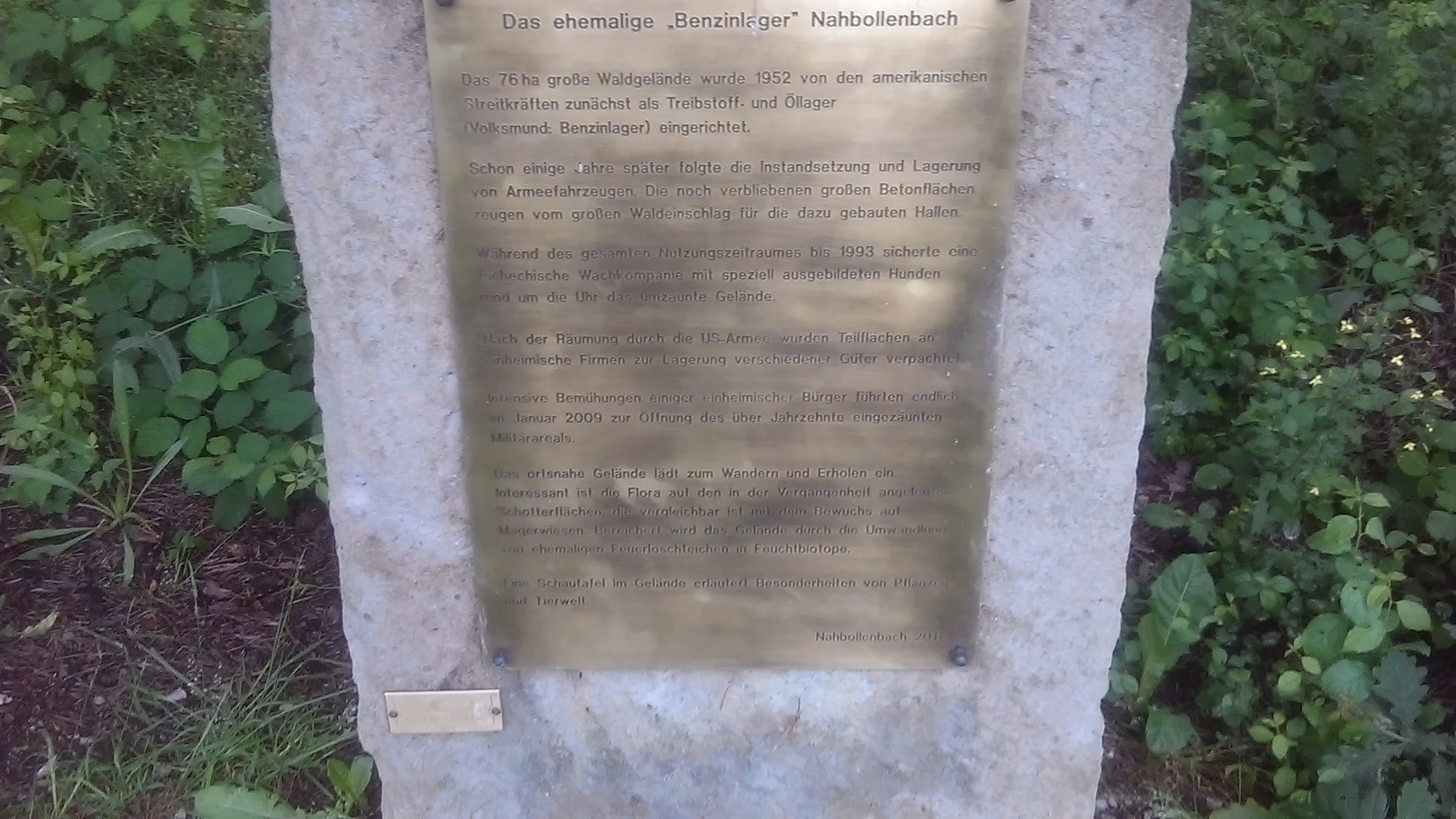 memorial tablet of the us-forces in Idar-Oberstein, Gedenktafel des US-Lagers Idar-Oberstein